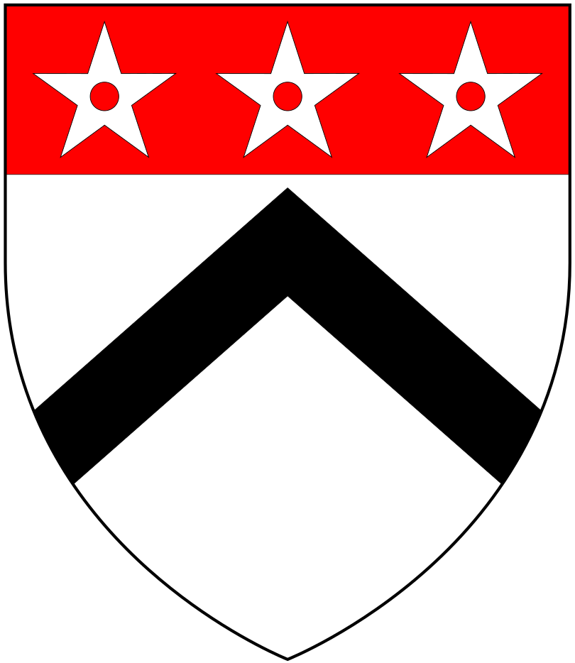 Arms of Fowell of Fowelscombe in the parish of Ugborough in Devon: Argent, a chevron sable on a chief gules three mullets pierced of the first (Vivian, Lt.Col. J.L., (Ed.) The Visitations of the County of Devon: Comprising the Heralds' Visitations of 1531, 1564 & 1620, Exeter, 1895, p.369)